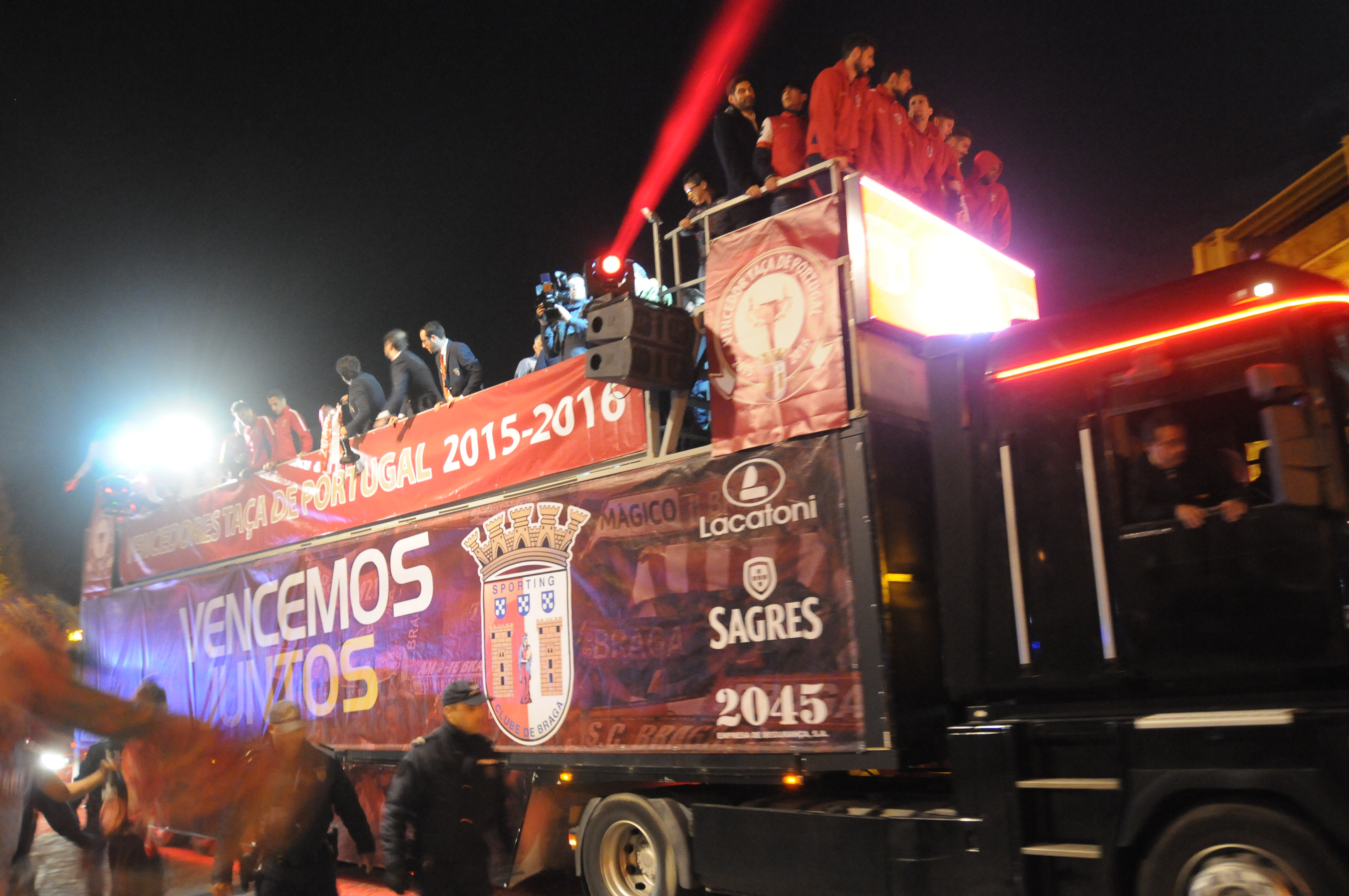 Sporting Clube de Braga in 2016 in Braga